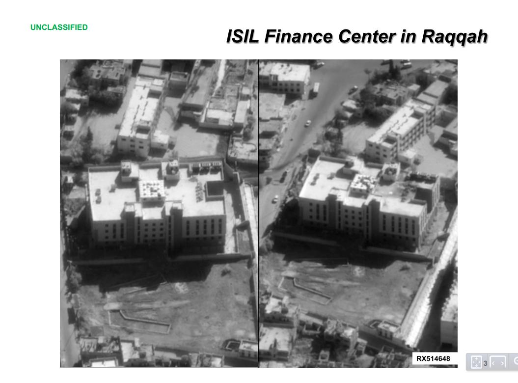 Strikes in Syria and Iraq, Sept. 23, 2014. ISIL Finance Center in ar-Raqqah, Syria. Unclassified DoD Briefing.